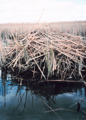 Image ID: line0602, America's Coastlines Collection Location: Middle Patuxent River marsh, Maryland Photo Date: 1996 September Photographer: Mary Hollinger, NODC biologist, NOAA The original image may be found at [1]